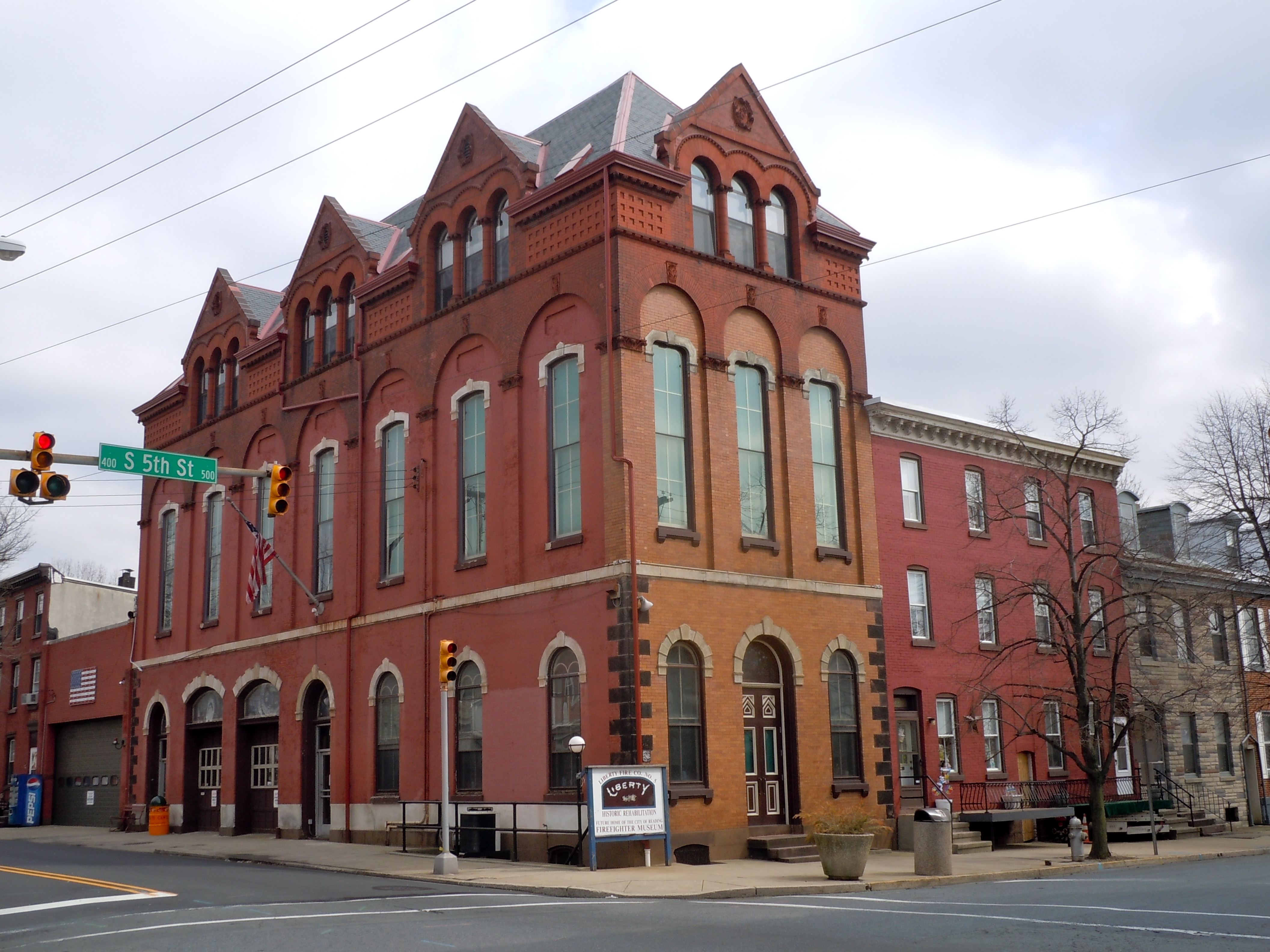 Liberty Fire Company No. 5 on the NRHP since January 18, 1985. At 501 South 5th Street, Reading, Berks county, Pennsylvania